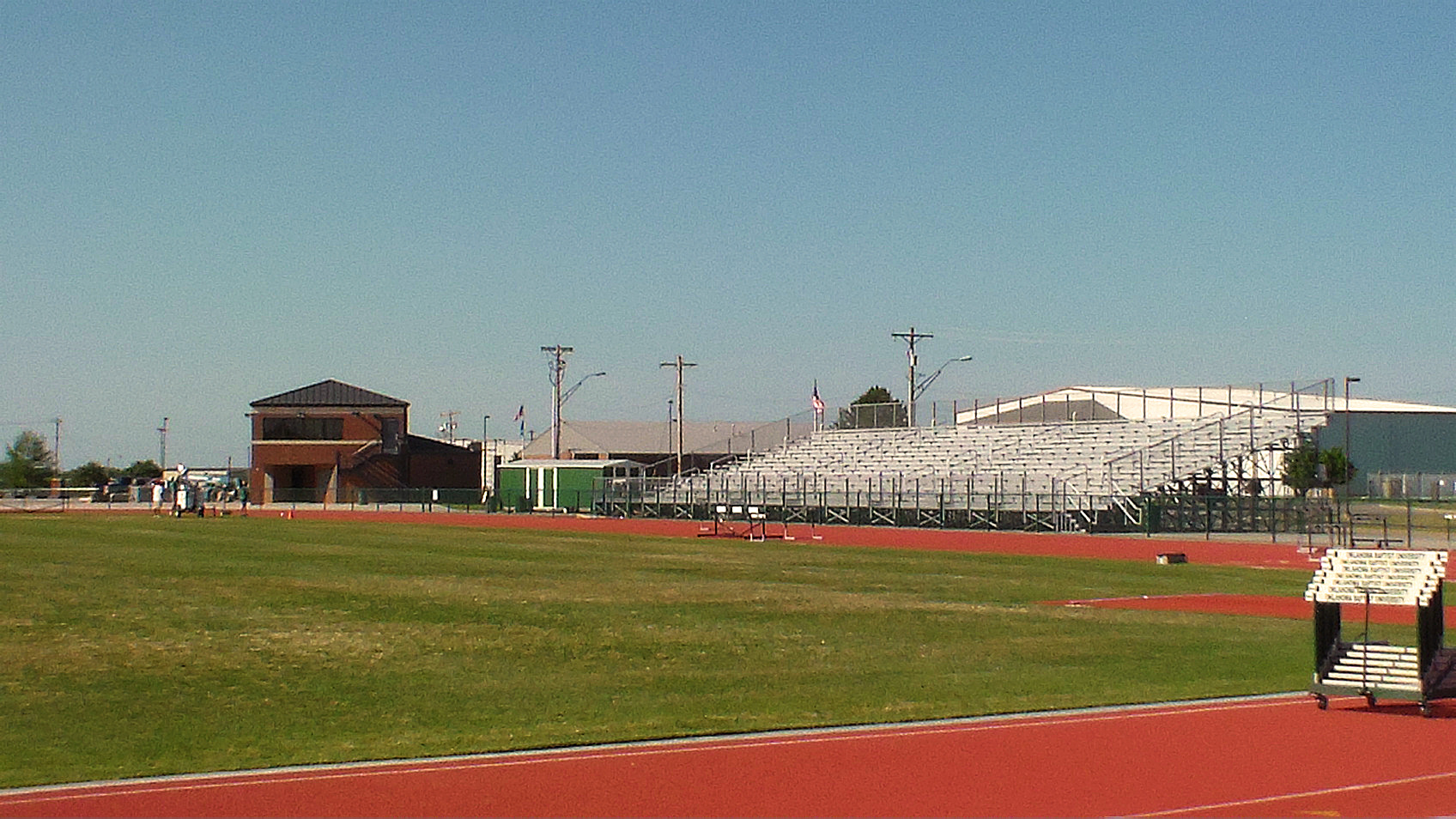 Eddie Hurt Jr. Memorial Track Complex on Oklahoma Baptist University campus in Shawnee, Oklahoma